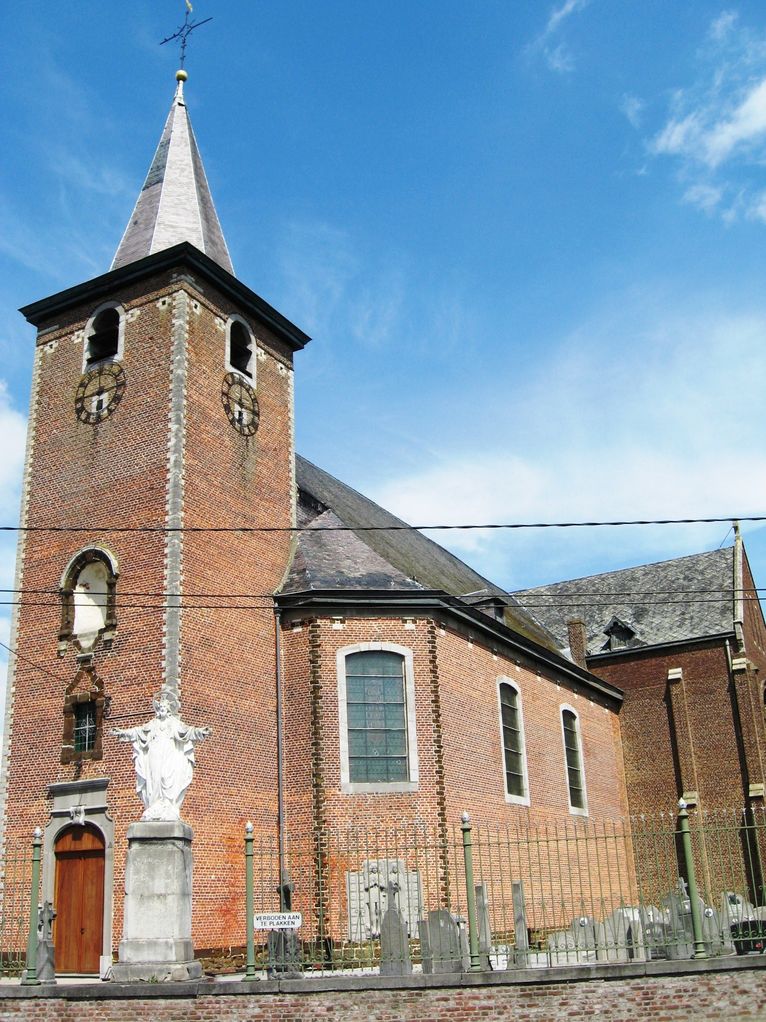 Church of Saint Ambrose in Rummen, Geetbets, Flemish Brabant, Belgium